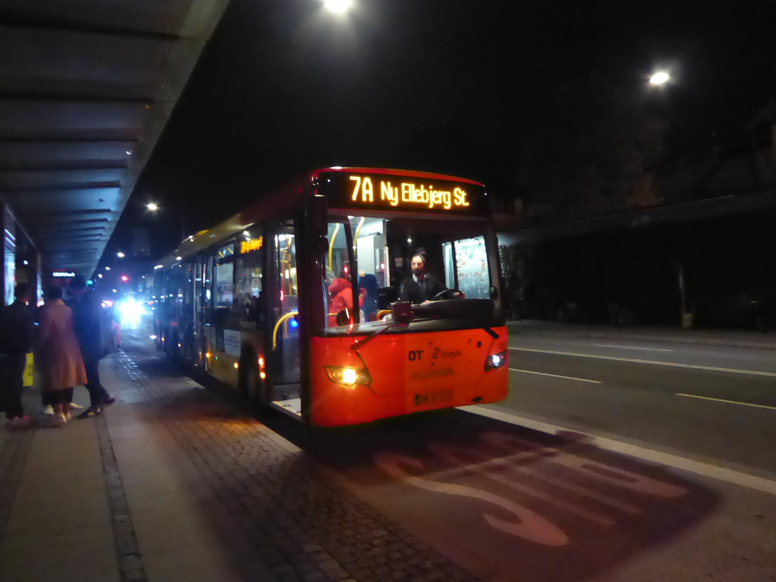 The very first Movia bus line 7A from Rødovrehallen to Ny Ellebjerg Station on Bernstorffsgade at Københavns Hovedbanegård (Copenhagen Central Station). The A-bus line runs around the clock so the line started a few minutes past midnight.